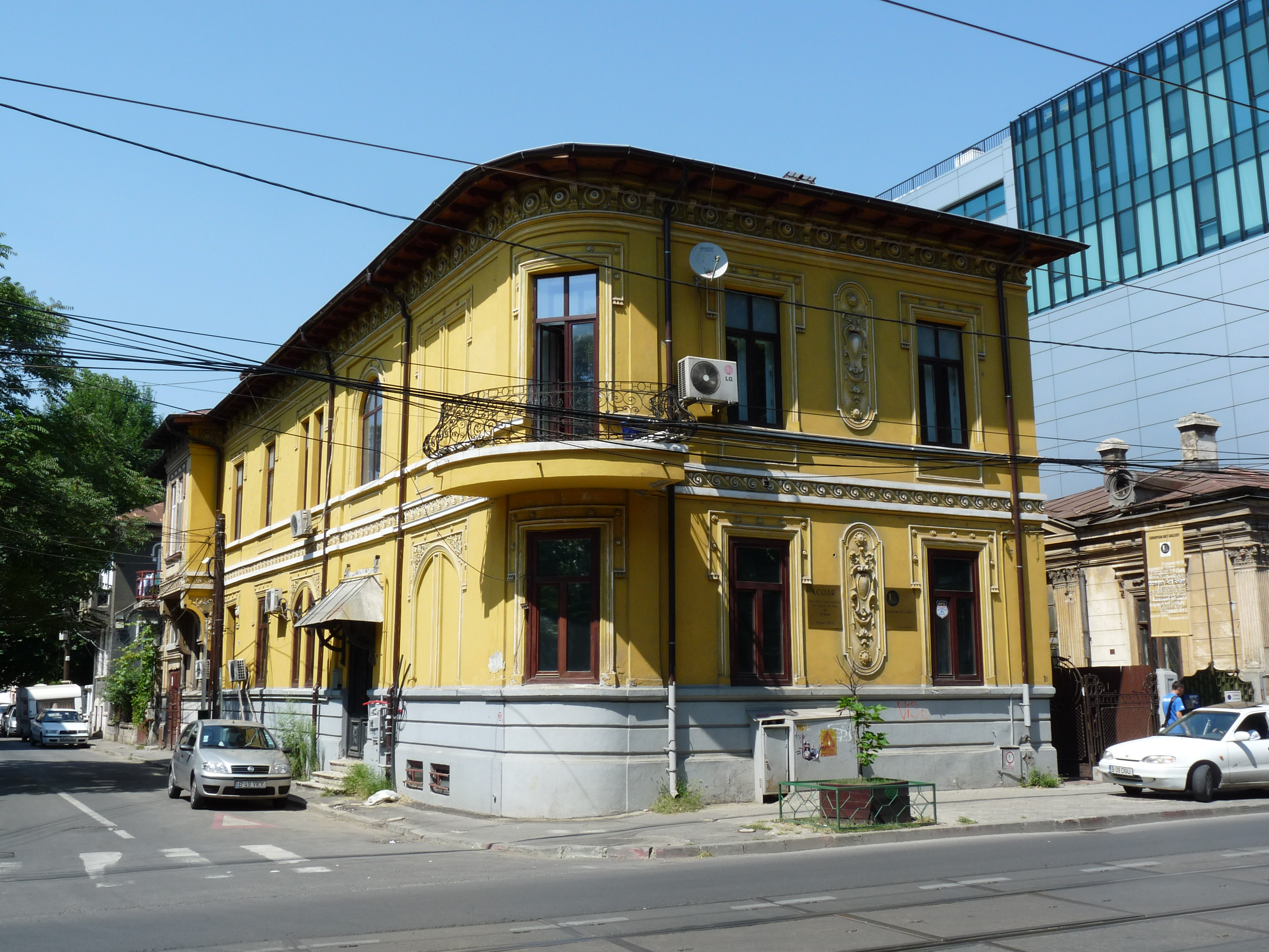 Historic building in Bucharest, Romania, on Regina Maria boulevard 18Română: Clădire istorică din Bucureşti, România, pe bulevardul Regina Maria 18